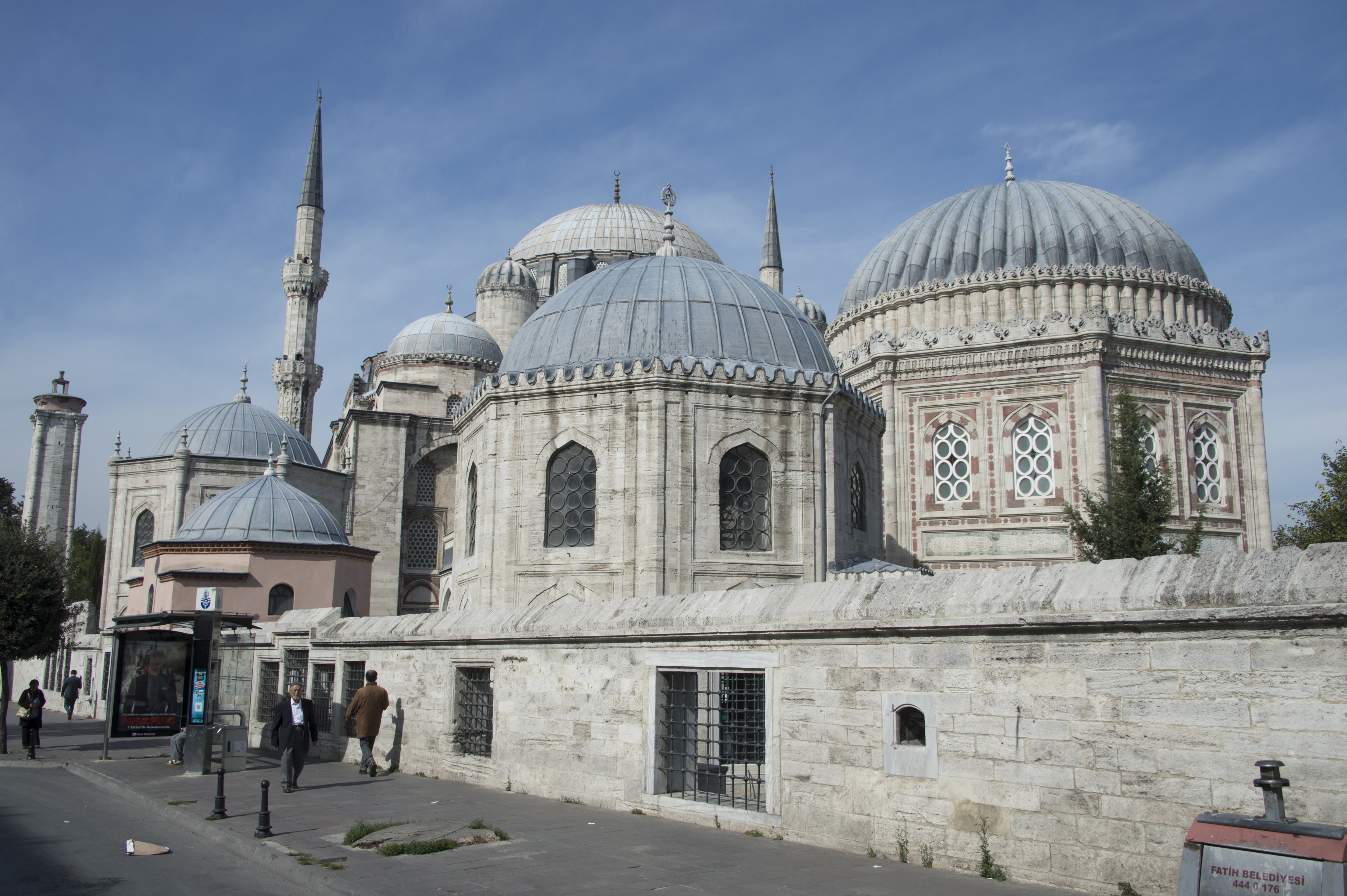 To the east of the mosque and accessible from the north garden as well as along the south with a small path there is a set of mausolea that, although often closed (but luckily increasingly often opened, they used to be closed always), are well worth a visit. Inside some of them are excellent Iznik tiles from the best periods. The Strolling through Istanbul guidebook stresses that they span a wider range of time then the mausolea at the Hagia Sophia.